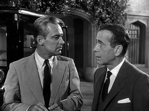 Screenshot of William Holden and Humphrey Bogart from the trailer for the film Sabrina (1954 film)